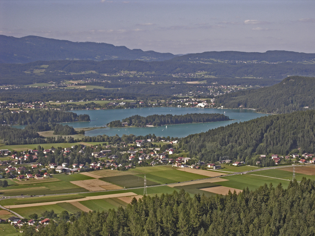 Lake Faak, view towards the north (from Finkenstein castle)